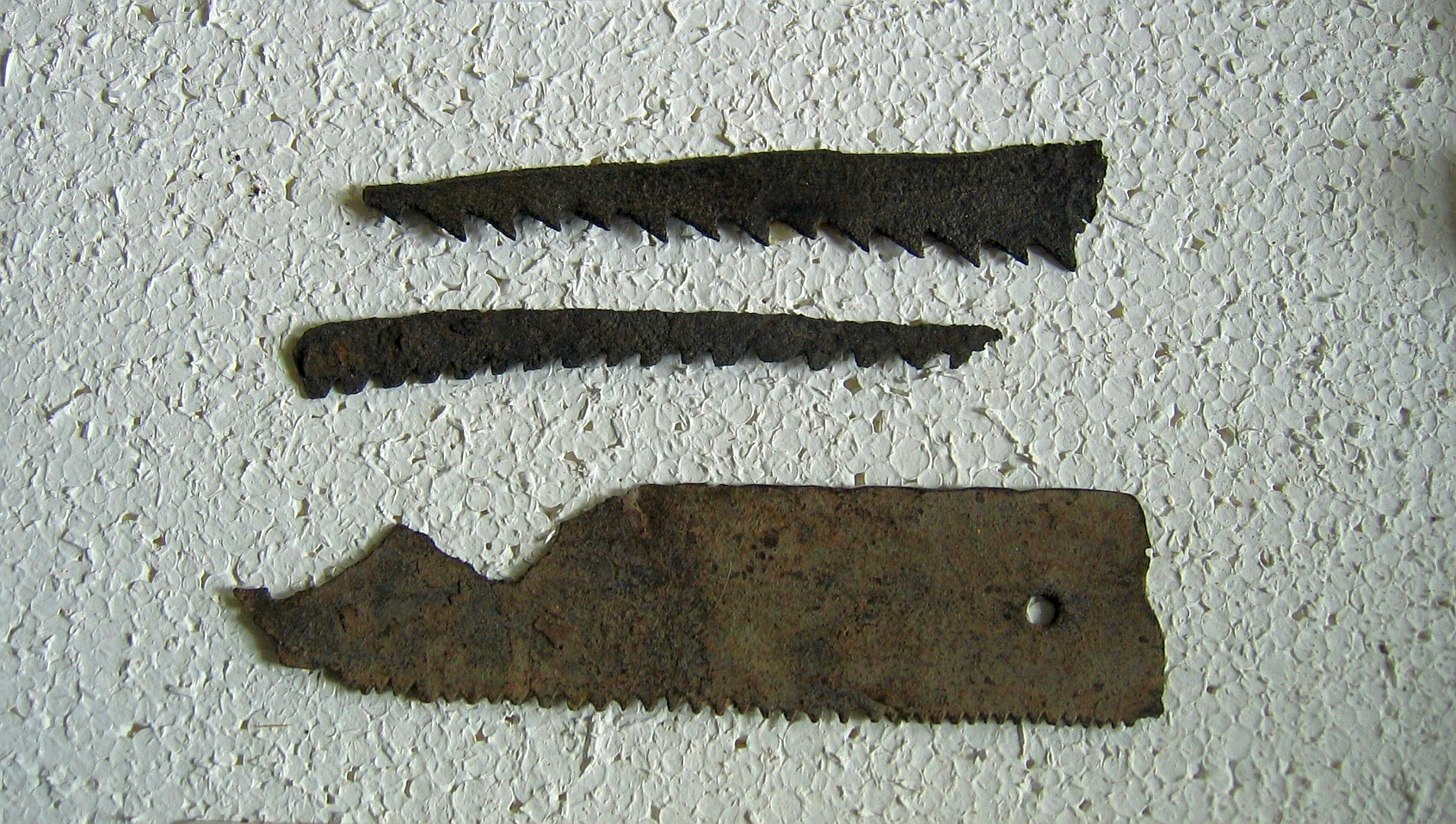 Roman sawblades from Vindonissa Windisch, Switzerland, 3rd to 5th century AD. Photographed at Vindonissa-Museum